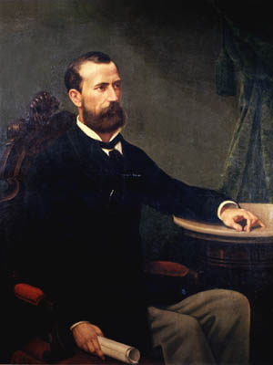 Louis Alfred Wiltz